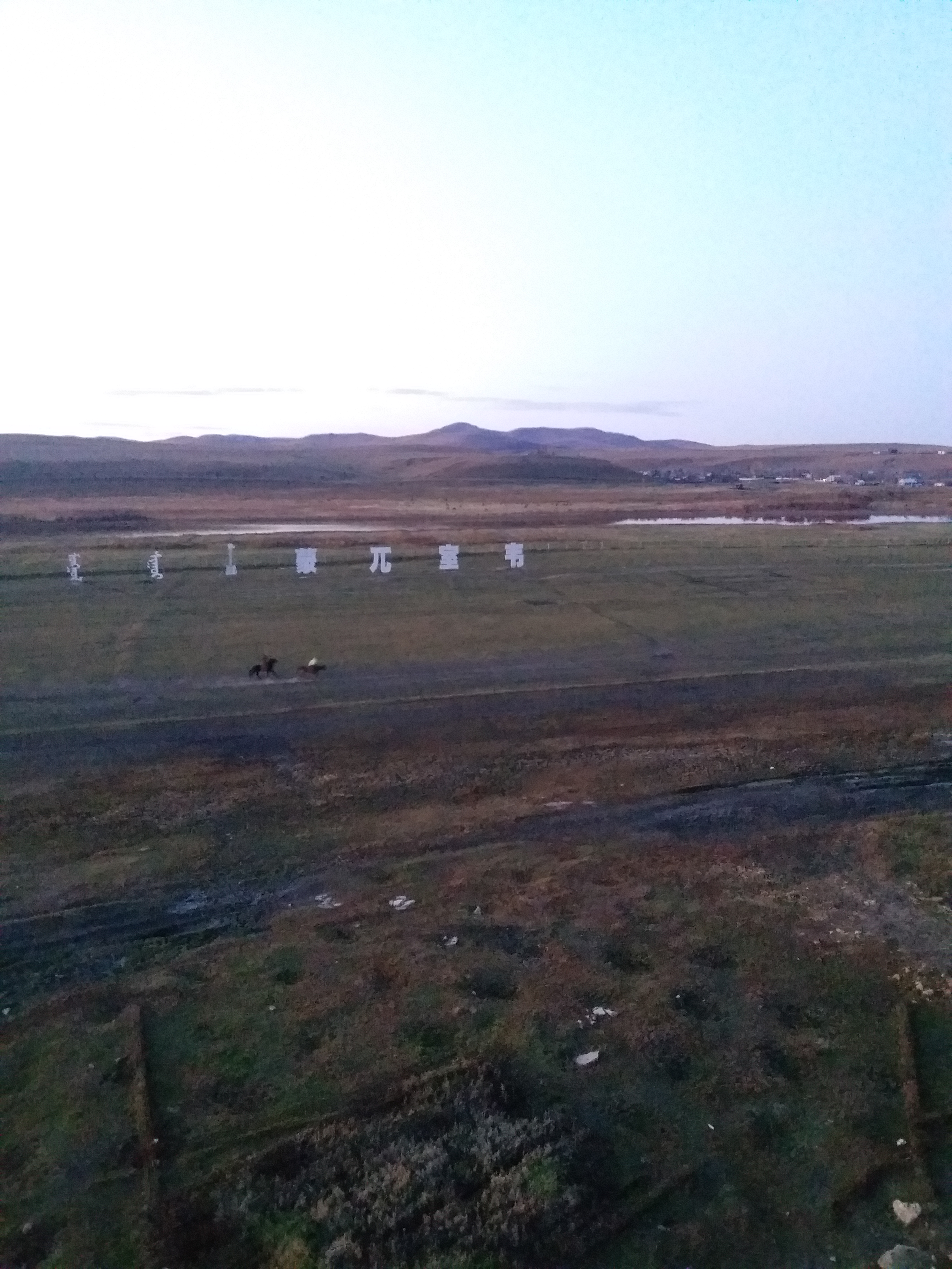 Sign is the name of the township in Mongolian and Chinese